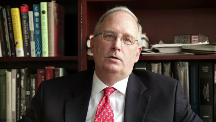 Image from the documentary film "Patent Absurdity"